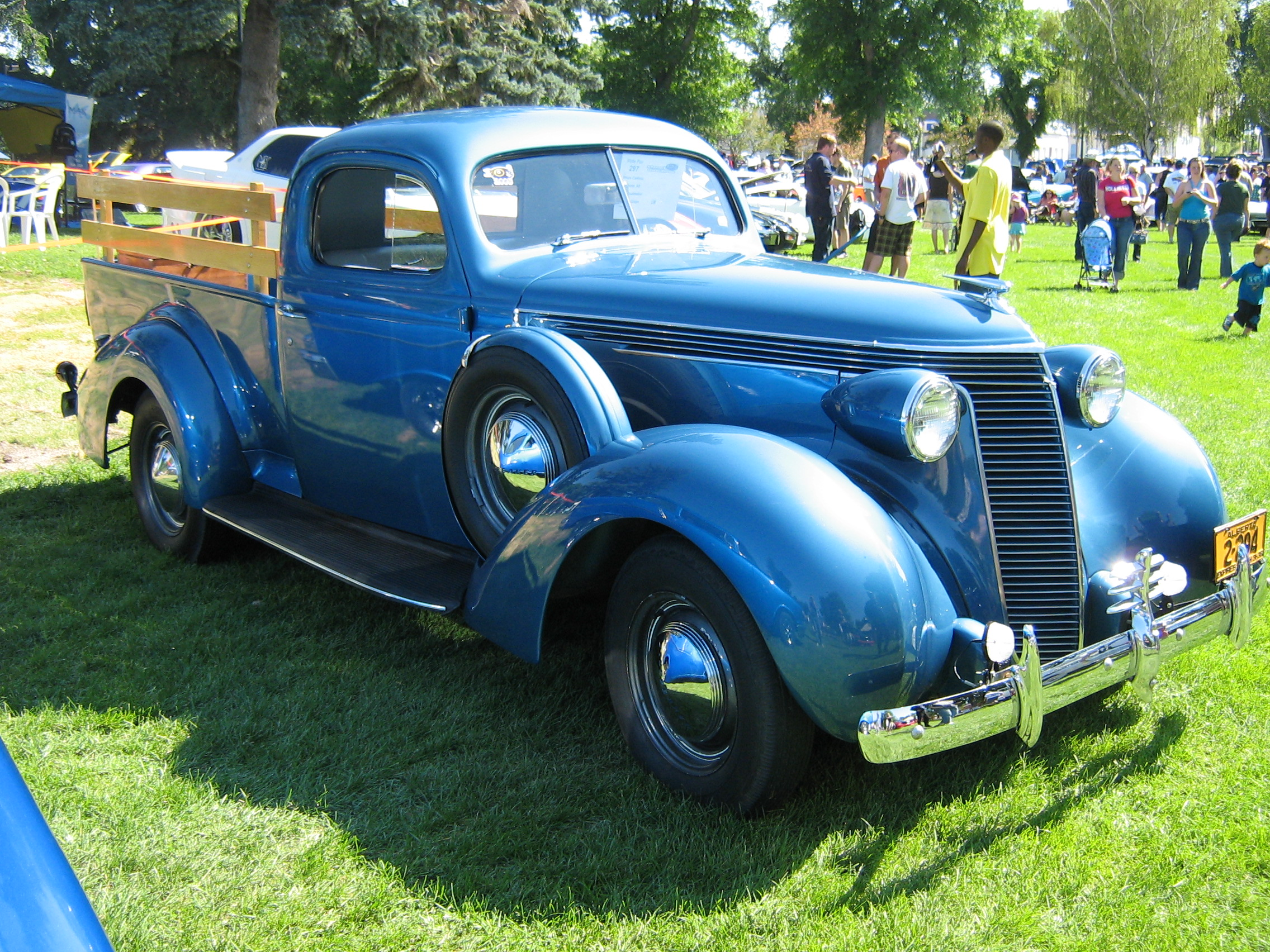 1937 Studebaker Express Coupe